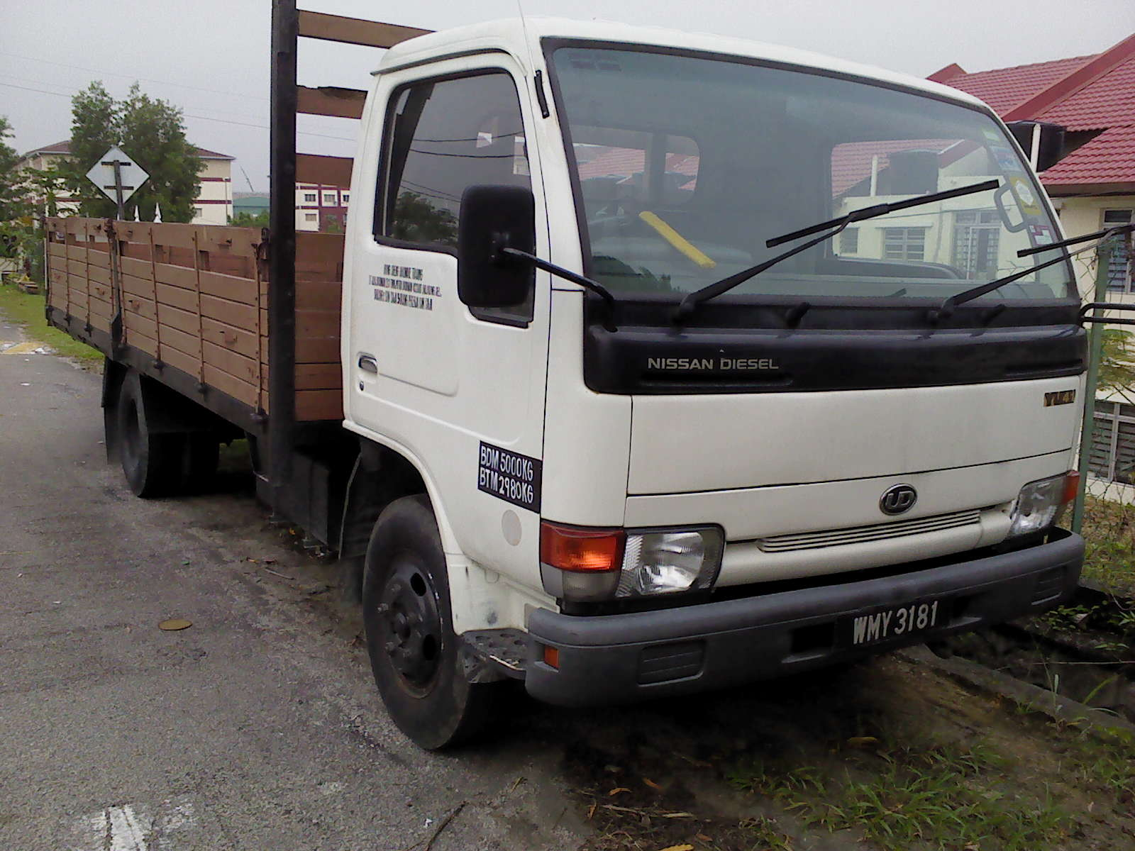 Production: 1995-present